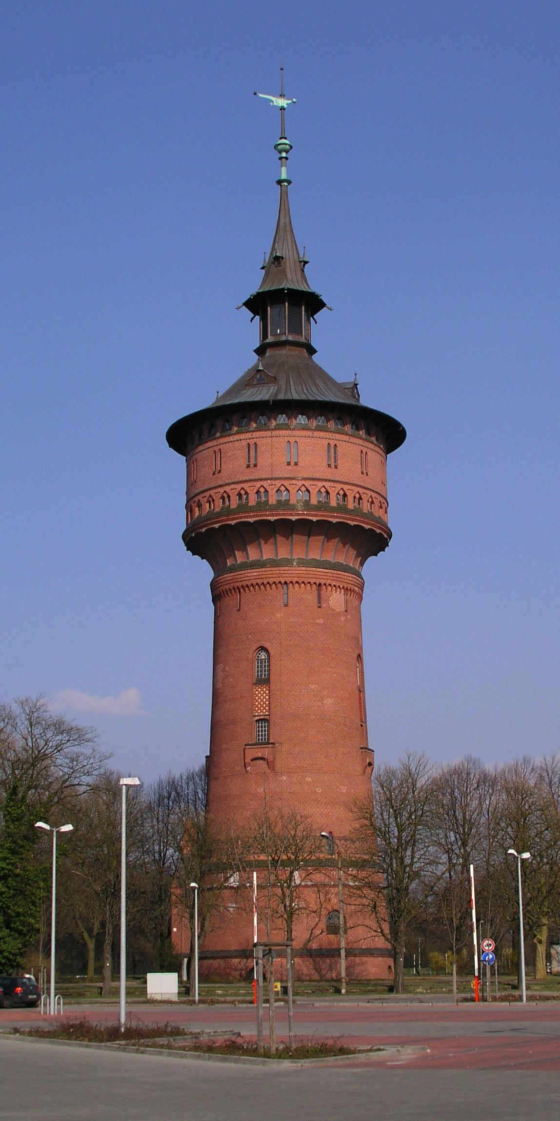 The water tower in Forst (Lausitz), Germany.